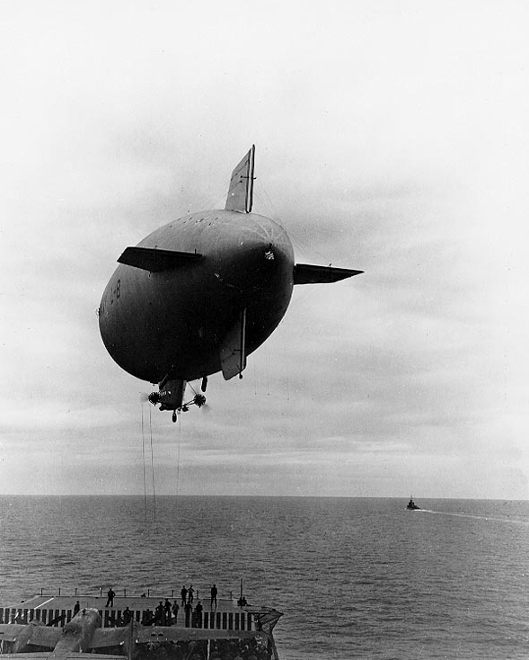 The U.S. Navy blimp L-8 over the aircraft carrier USS Hornet (CV-8) at the beginning of the "Doolittle Raid" in April 1942. Note the USAAF North American B-25 Mitchell bomber on Hornet´s deck.